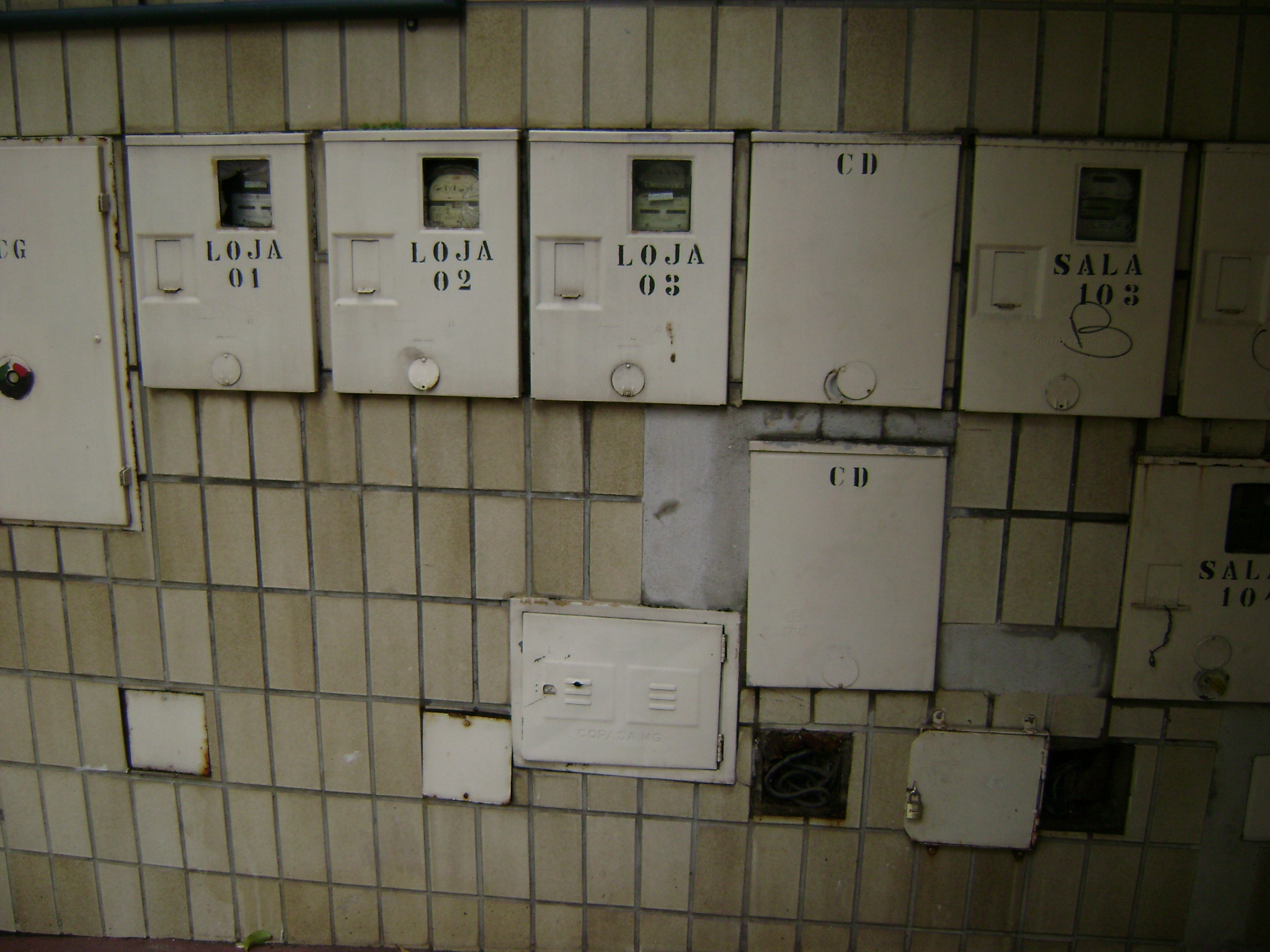 Caixas de energia